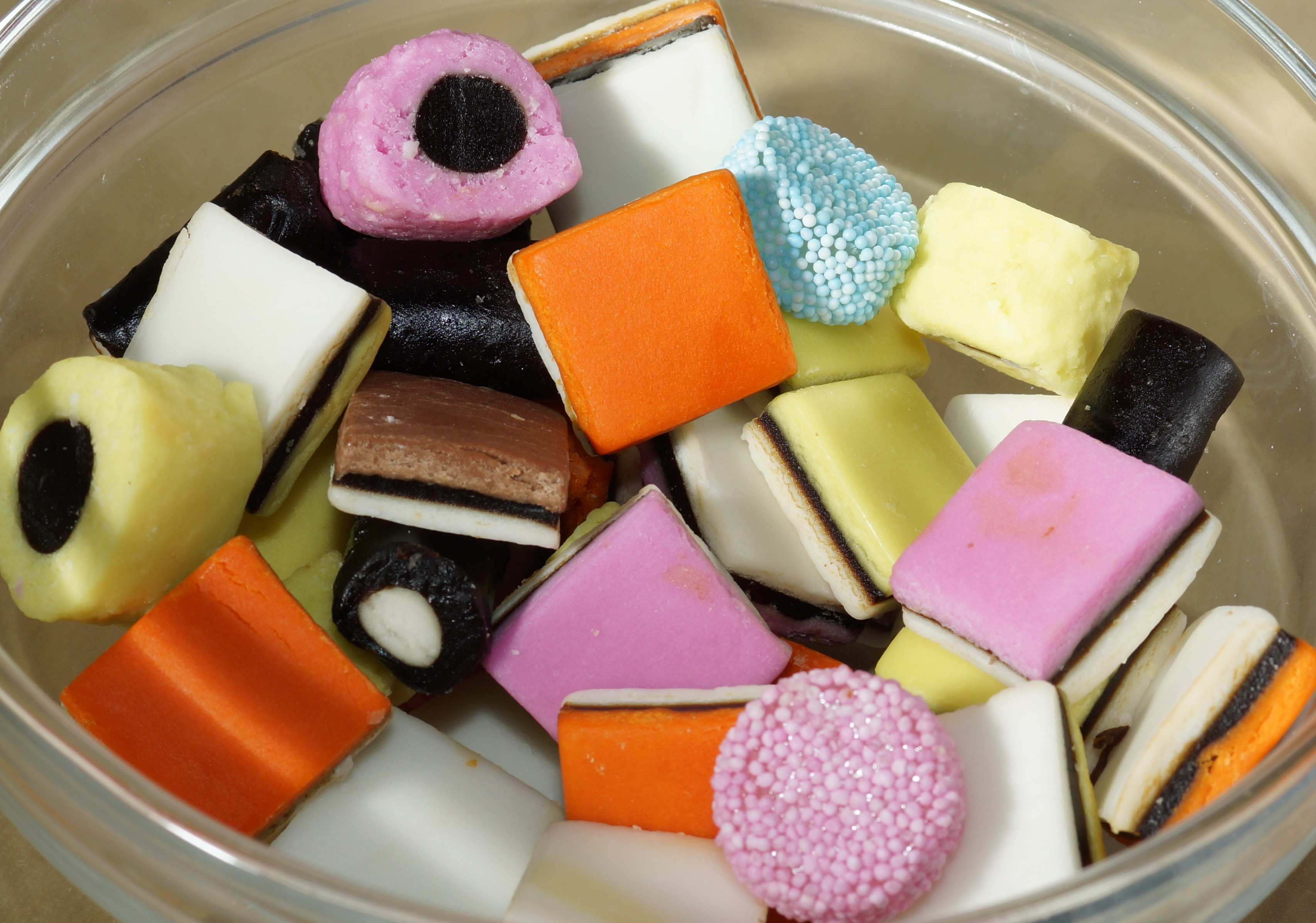 A selection of Liquorice Allsorts in a glass bowl.